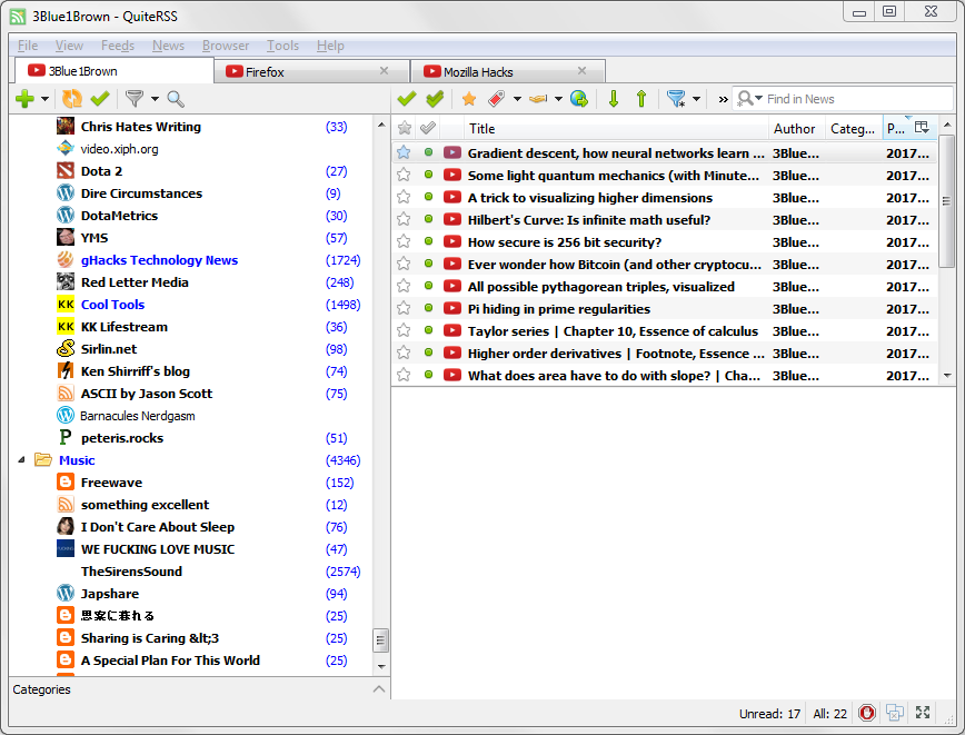 Screenshot of QuiteRss using "System" style in windows 7.